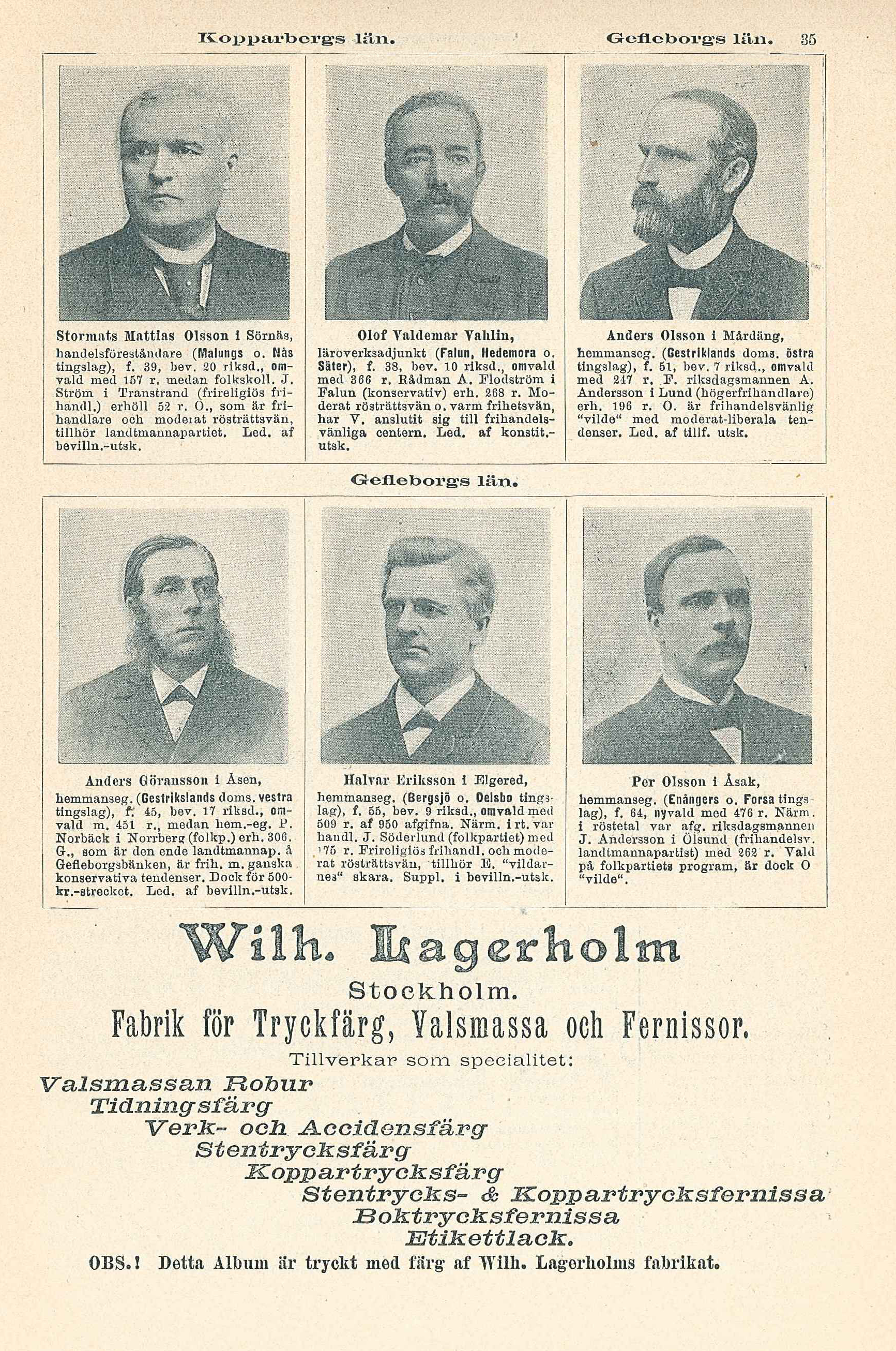 Page 35 of an album featuring portraits of all the members of the second chamber of the Swedish parliament (Sveriges riksdag) elected in 1897. This page featuring parts of the members representing the counties of Kopparberg and Gävleborg.